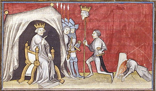 Miniature of the death of Don Pedro (Peter I of Castile). British Library, Yates Thompson 35 f. 250